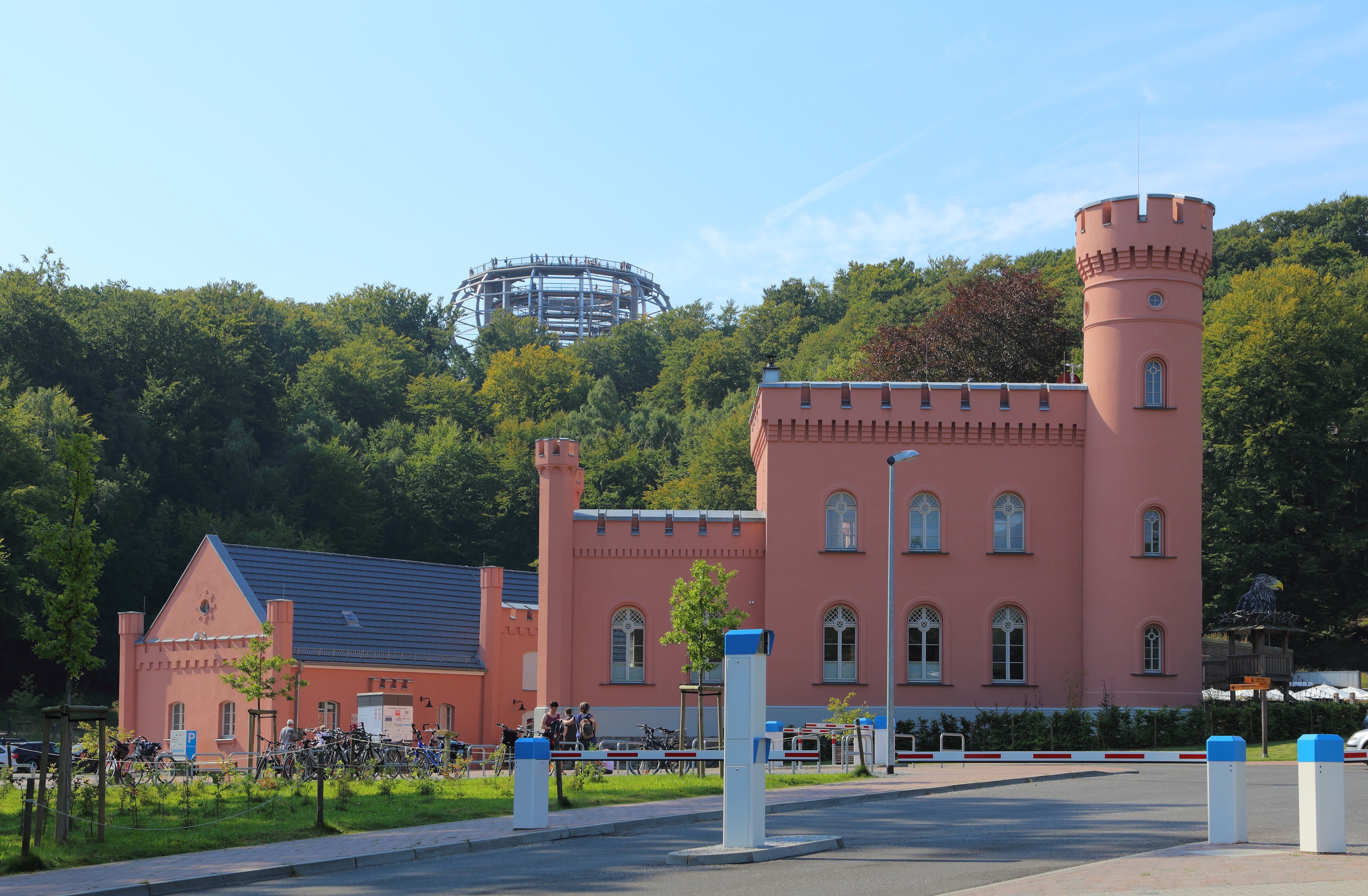 The former forester's lodge Prora (Forsthaus Prora) in Binz-Prora, Landkreis Vorpommern-Rügen, Mecklenburg-Vorpommern, Germany. Since 2013 it forms part of the Naturerbe-Zentrum Rügen with it's large tree top walk (visible in the background). The building is a listed cultural heritage monument.